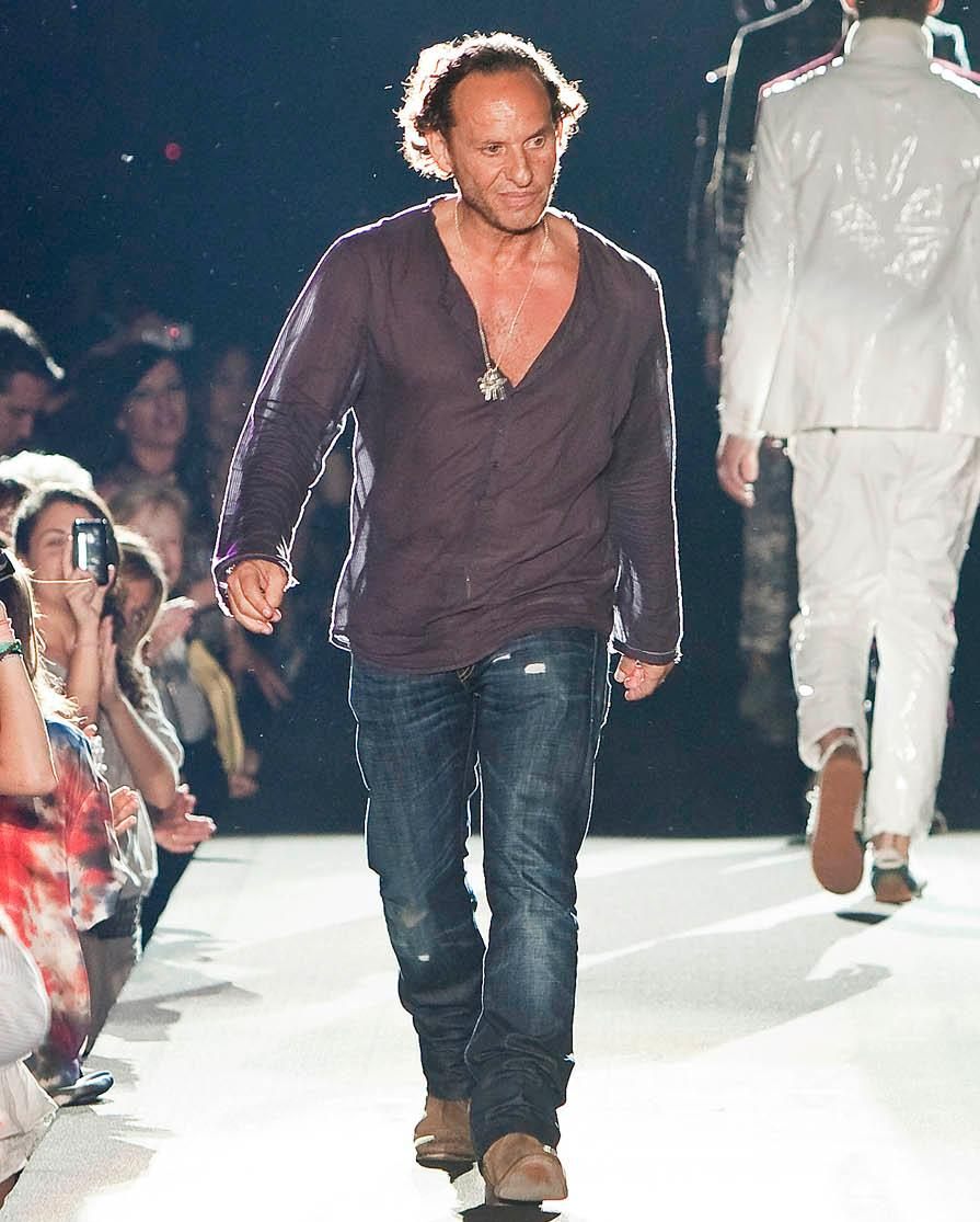 Custo Dalmau at The Brandery Summer Edition 2010